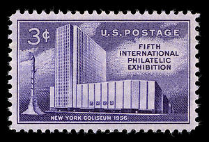 3-cent FIPEX commemorative stamp issued April 30, 1956, in New York City in conjunction with the Fifth International Philatelic Exhibition, held in the New York Coliseum, New York, from April 28 to May 6, 1956.